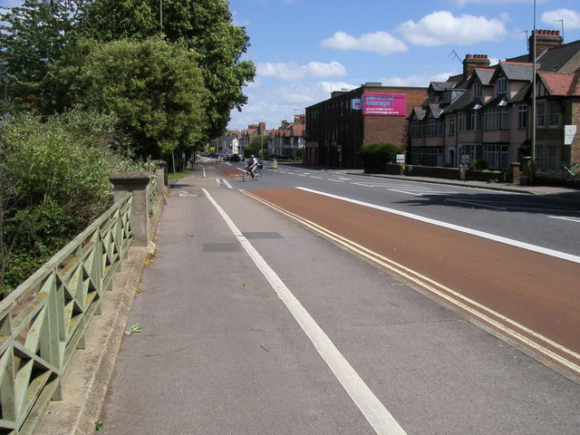 View east along Botley Road, Oxford, from the bridge over Bulstake Stream